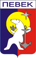 Pevek (Chukotka), coat of arms